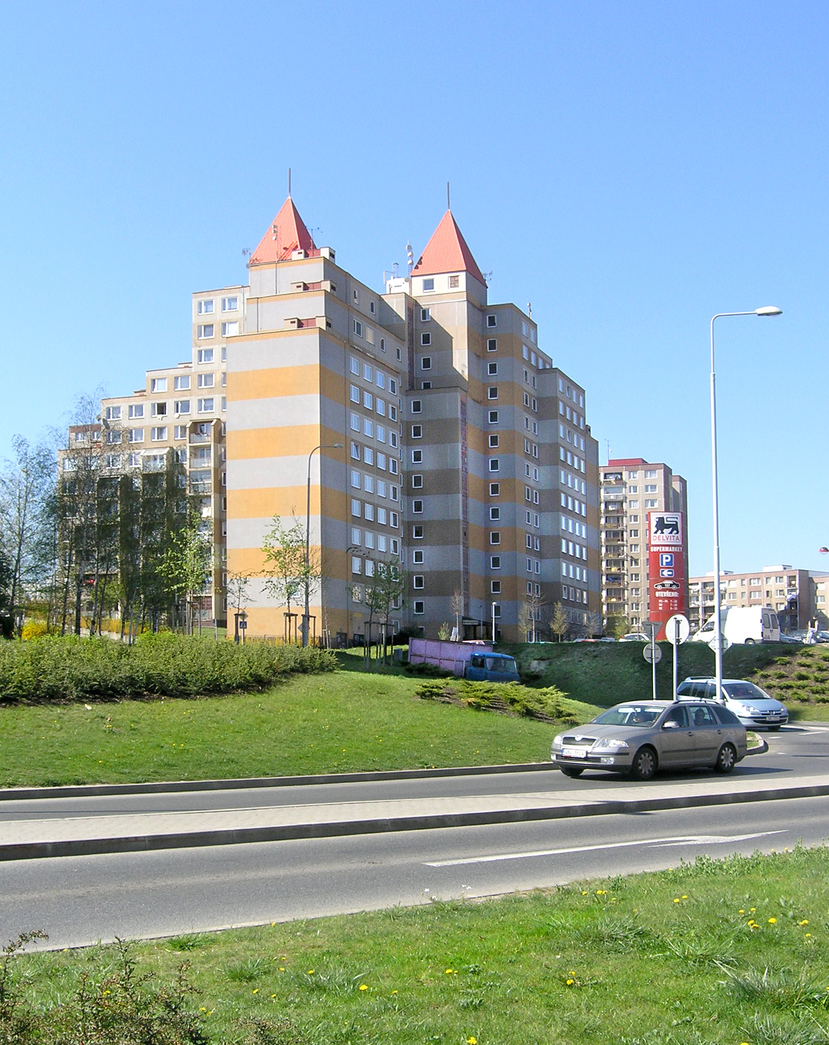 Barrandov housing estate, Prague